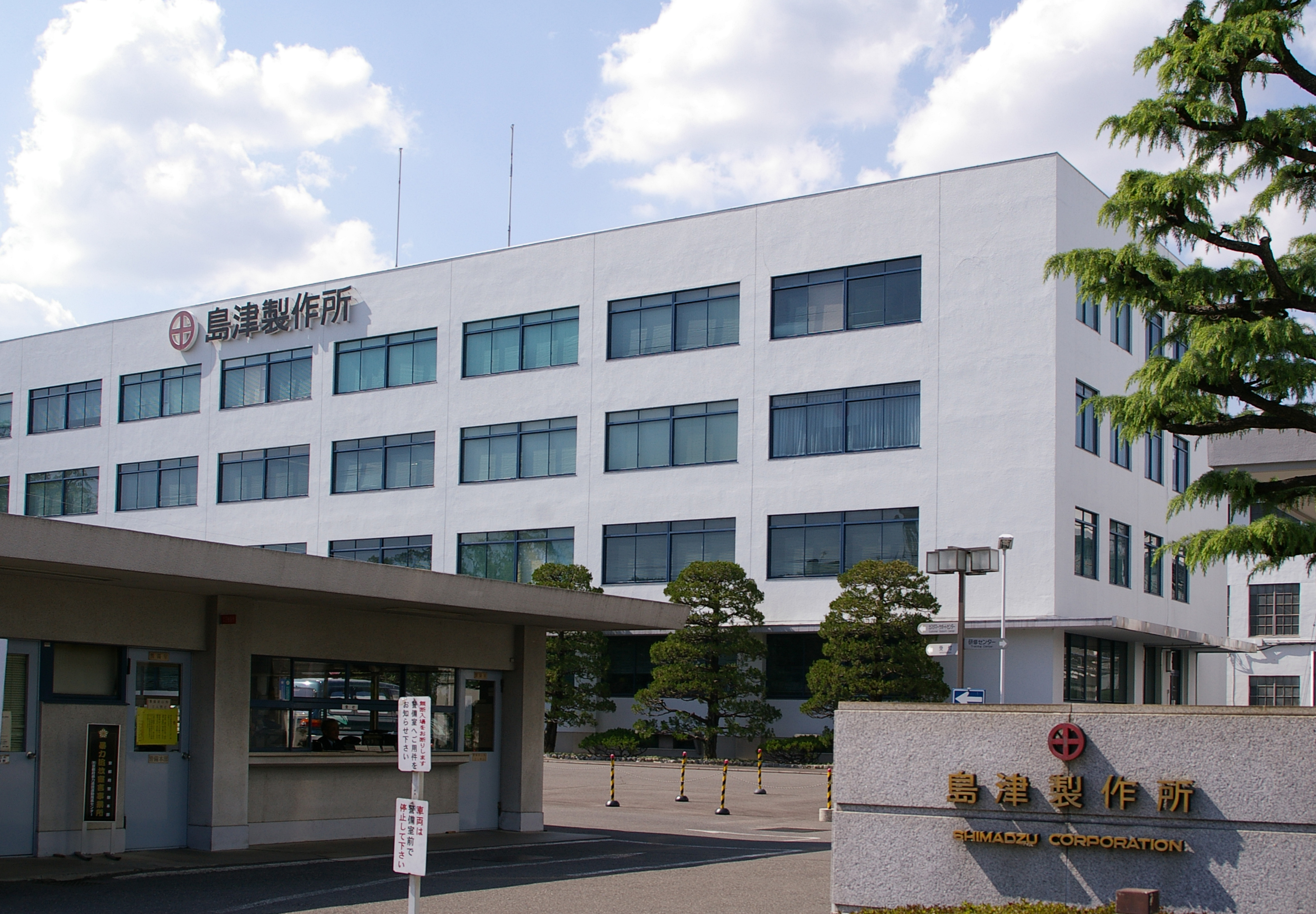 Photograph of the headquarters of Shimadzu Corporation in Nakagyo-ku, Kyoto, Kyoto Prefecture, Japan.